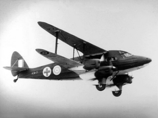 A Royal Australian Air Force De Havilland DH.86A Express air ambulance (s/n A31-7) in flight on 26 February 1942, one of eight used by the RAAF from 1939 until 1945. Capable of carrying one doctor and up to eight patients (six of whom can be carried on stretchers), these four engined biplanes served with 35 and 36 Squadrons and 1 Air Ambulance Unit (1 AAU). A31-7 served with 1 AAU in the Middle East. It arrived at Cairo on 3 July 1941 and was based at Gaza and Gerawla supporting the work of 1 Australian General Hospital before being damaged on the ground in an enemy attack on Mersa Matruh airfield on 31 January 1942. Despite being riddled with shrapnel holes, it was repaired with parts scavenged from enemy aircraft and flown again, being the only aircraft 1 AAU had which was capable of flying for most of the first half of 1942. As the last operational DH.86A, A31-7 was withdrawn from use due to the unavailabillity of 77-octane fuel after transporting patients during the Italian campaign in 1943. It has been suggested that the aircraft was then dismantled for spares and probably scrapped. A total of 8,252 patients were airlifted by 1 AAU during the unit's service in the Middle East and Italy.